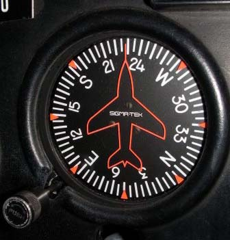 The heading indicator from a Cessna 172. Photo taken by me on en:2006-01-28.